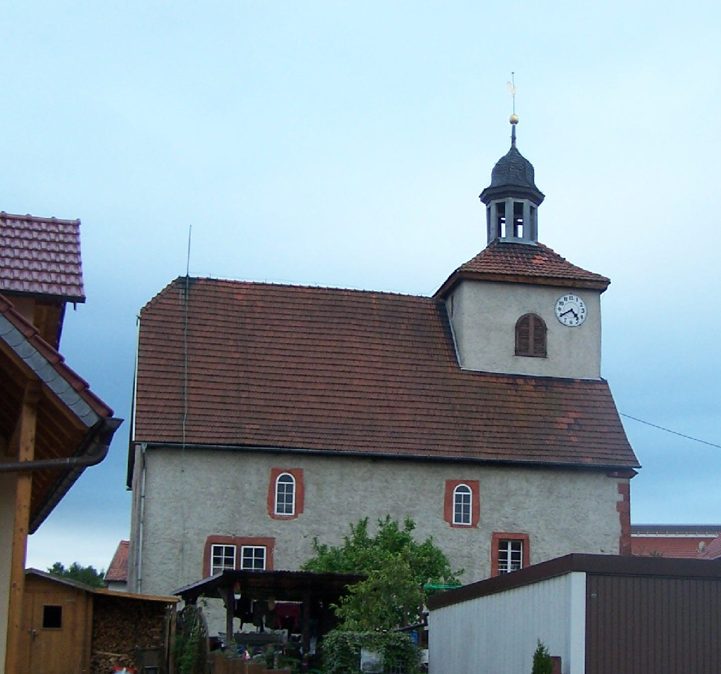 The church in Langenfeld.